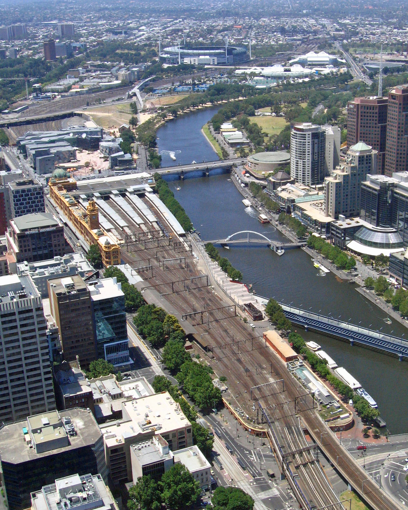 A bird's-eye-view of south of Melbourne CBD, with Flinders Street railway station on the mid- and foreground and the eastern suburbs of the Melbourne metropolitan area dominating the background. The sporting stadium amidst these suburbs is the Melbourne Cricket Ground, the main sporting complex of Melbourne, part of the city's Sports and Entertainment Precinct.